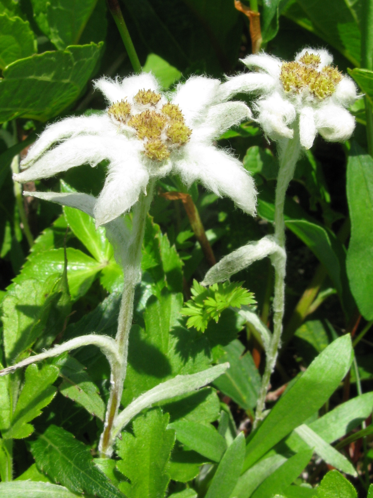 Leontopodium fauriei, Mt. Iide, Fukushima pref., Japan